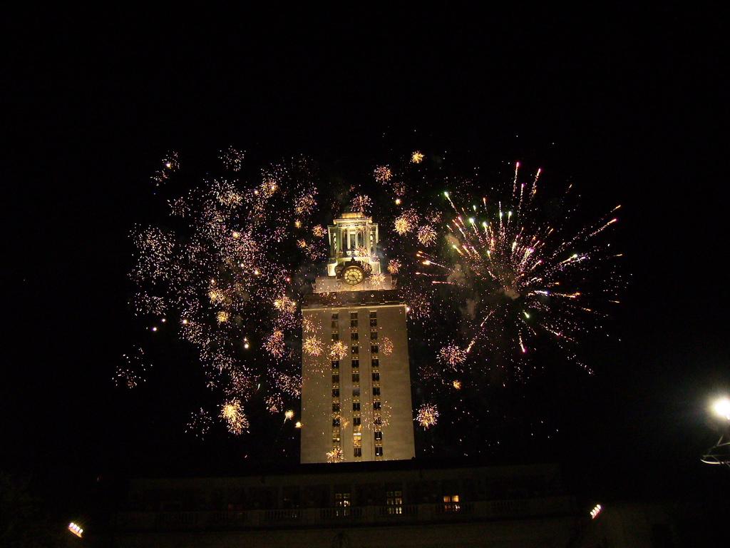 Fireworks display at the UT tower during Diwali 2007